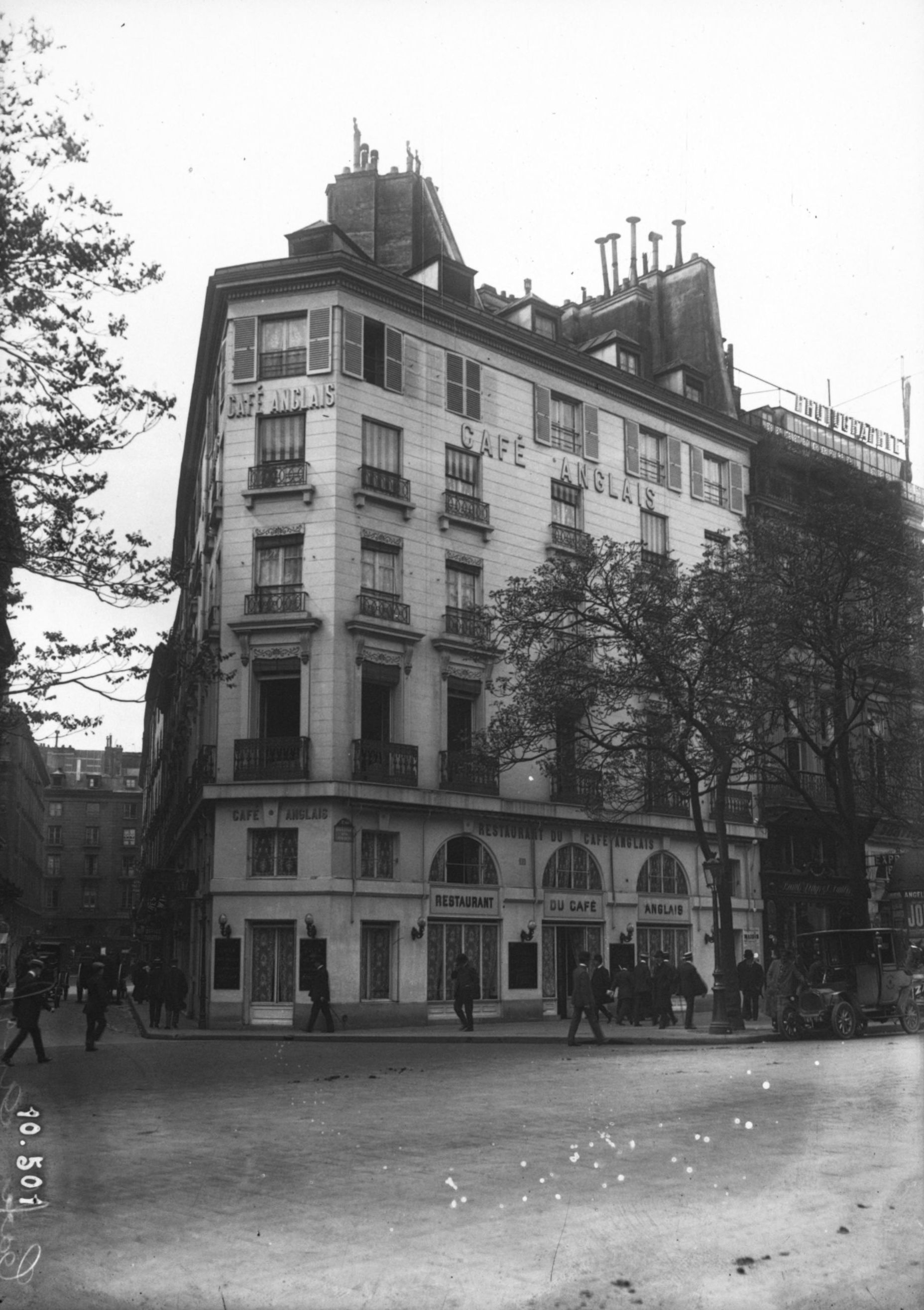 The café anglais (1802-1913) at the corner of the boulevard des Italiens and the rue Marivaux, Paris 2nd arr.)